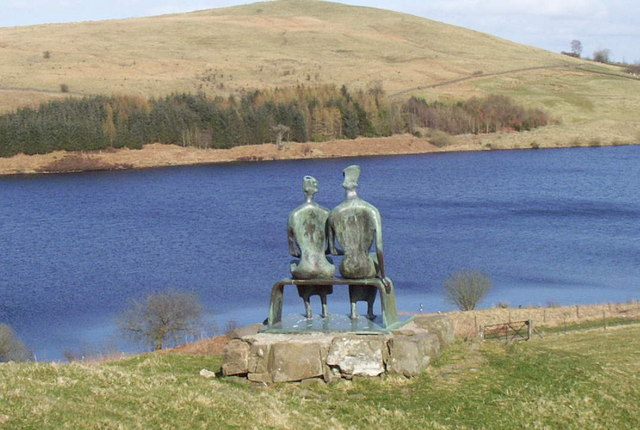 "King and Queen" by Henry Moore at Glenkiln Reservoir